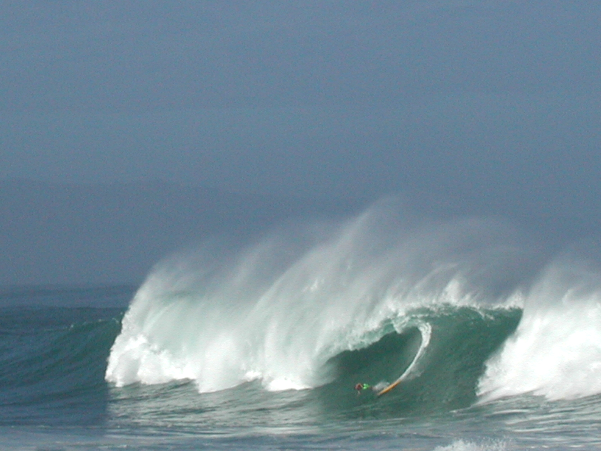 Huge surf with an offshore wind on Oahu's North Shore. Waimea Bay, Hawaii.